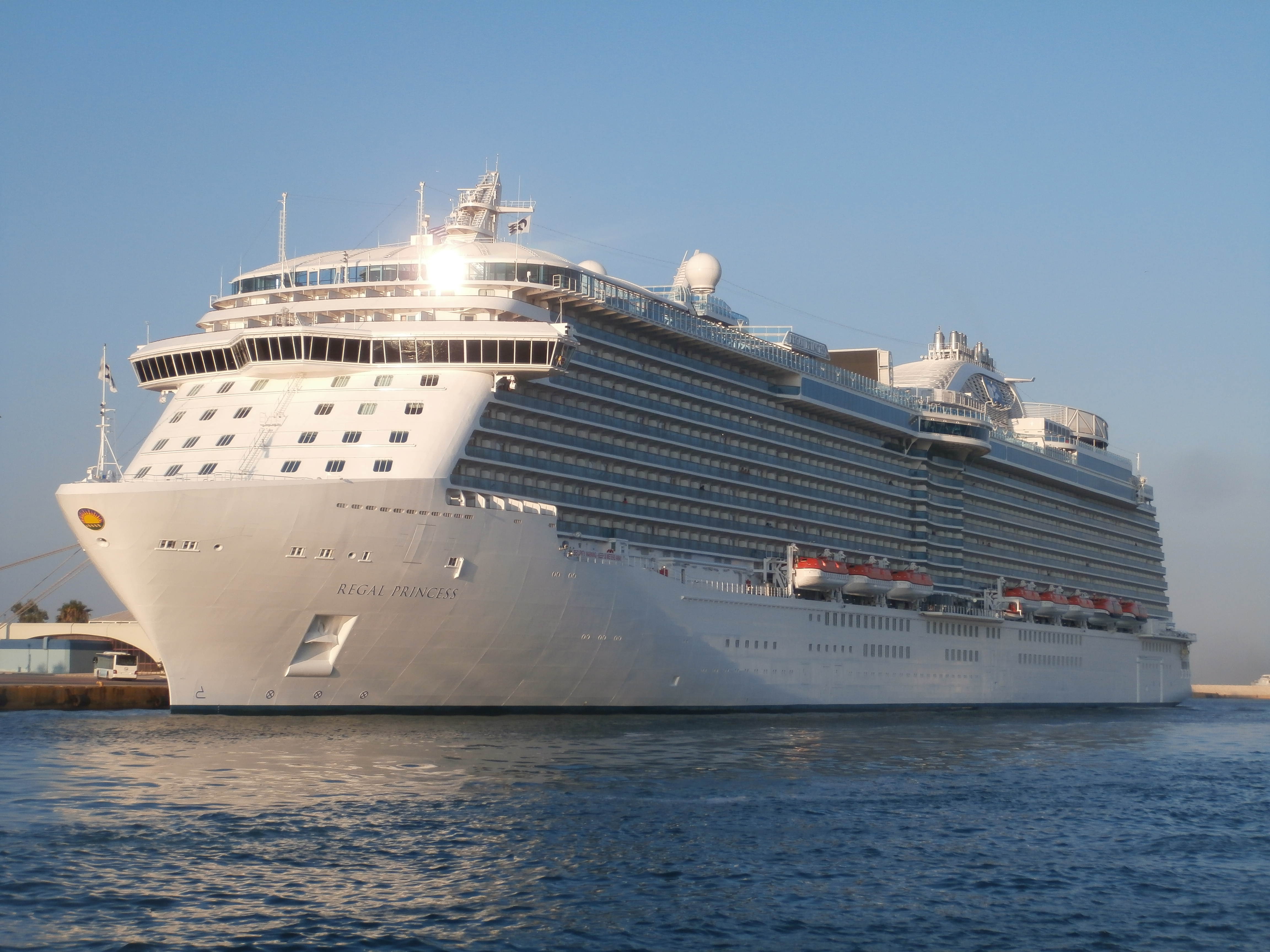 Regal Princess in the port of Pireas